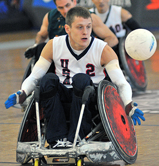 Photo of wheelchair rugby player, Seth McBride